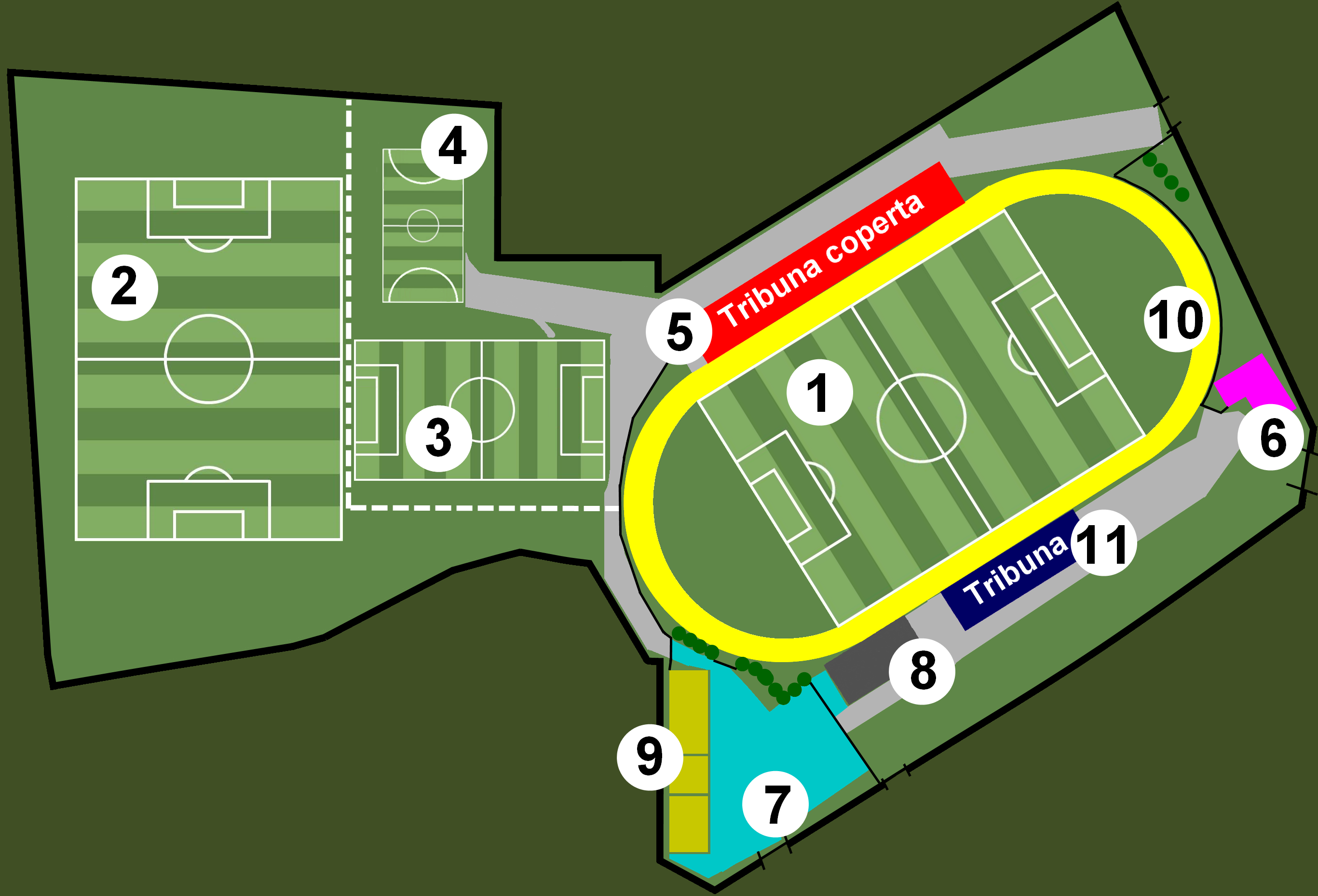 'Cittadella dello Sport' Frosinone Calcio training centre (Ferentino, Italy)